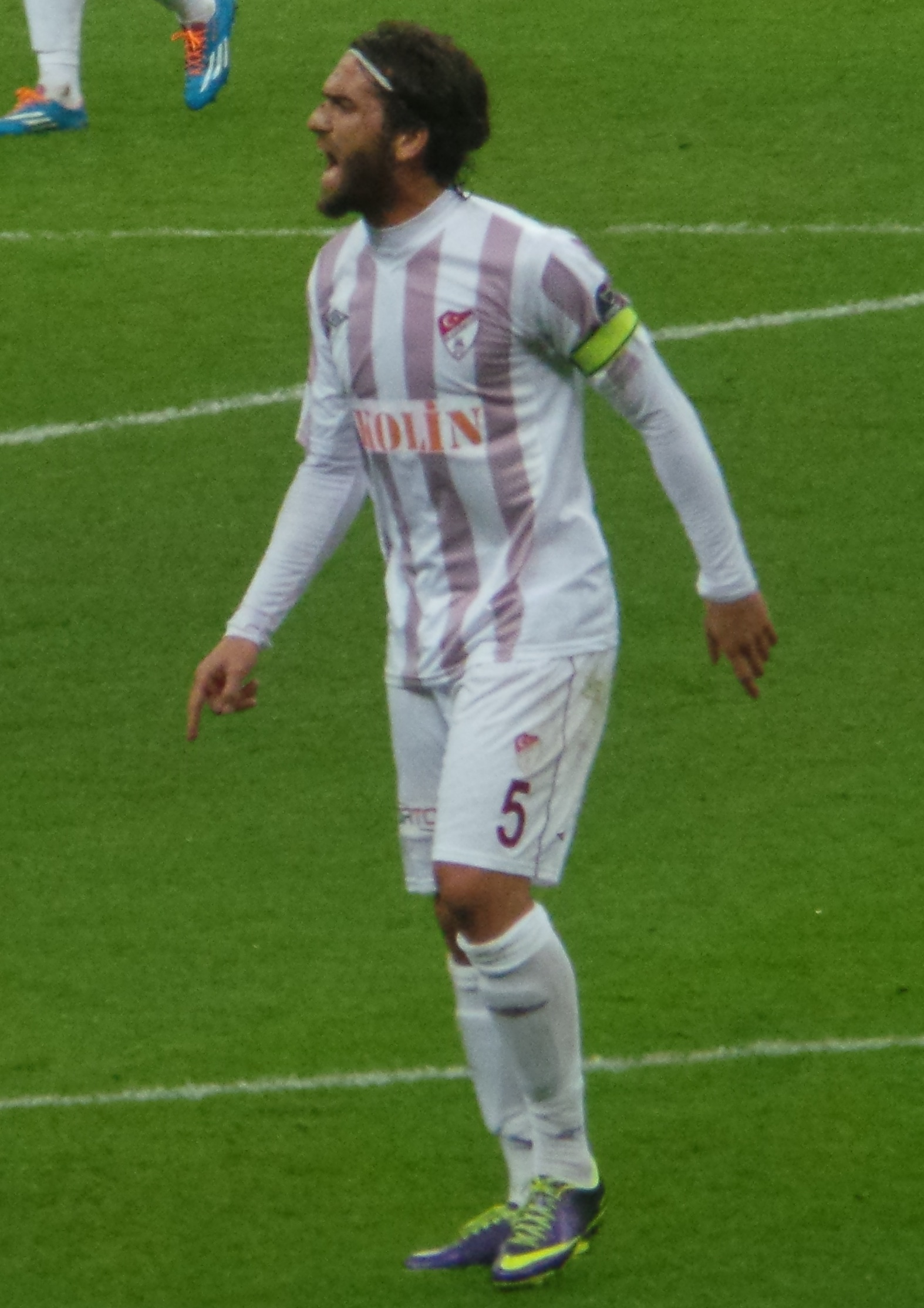 İbrahim Kaş'13-14